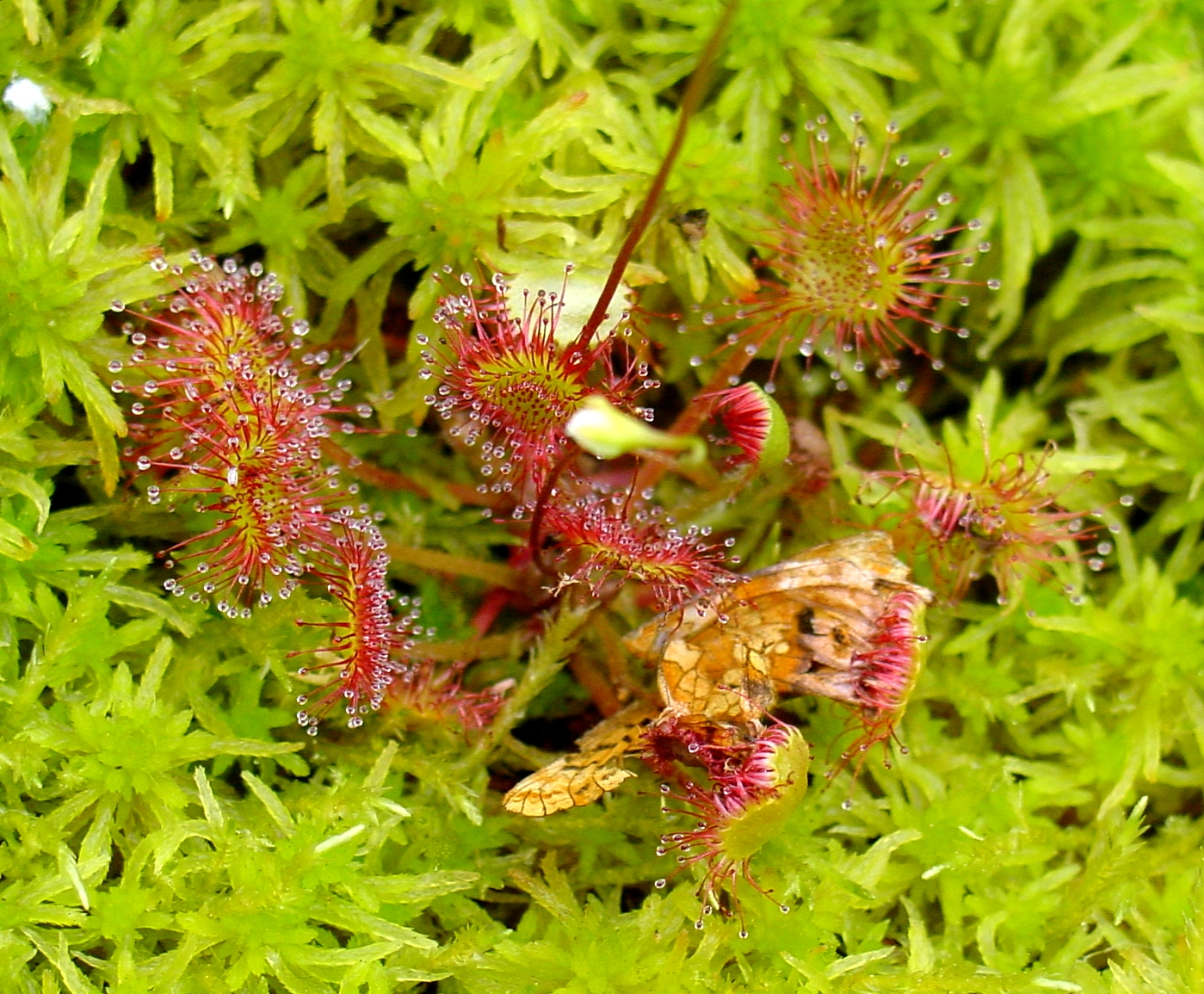 Description: Drosera rotundifolia with the remains of a butterfly, growing in green shagnum moss in Mt. Hood N.P., OR Photo taken by: Noah Elhardt